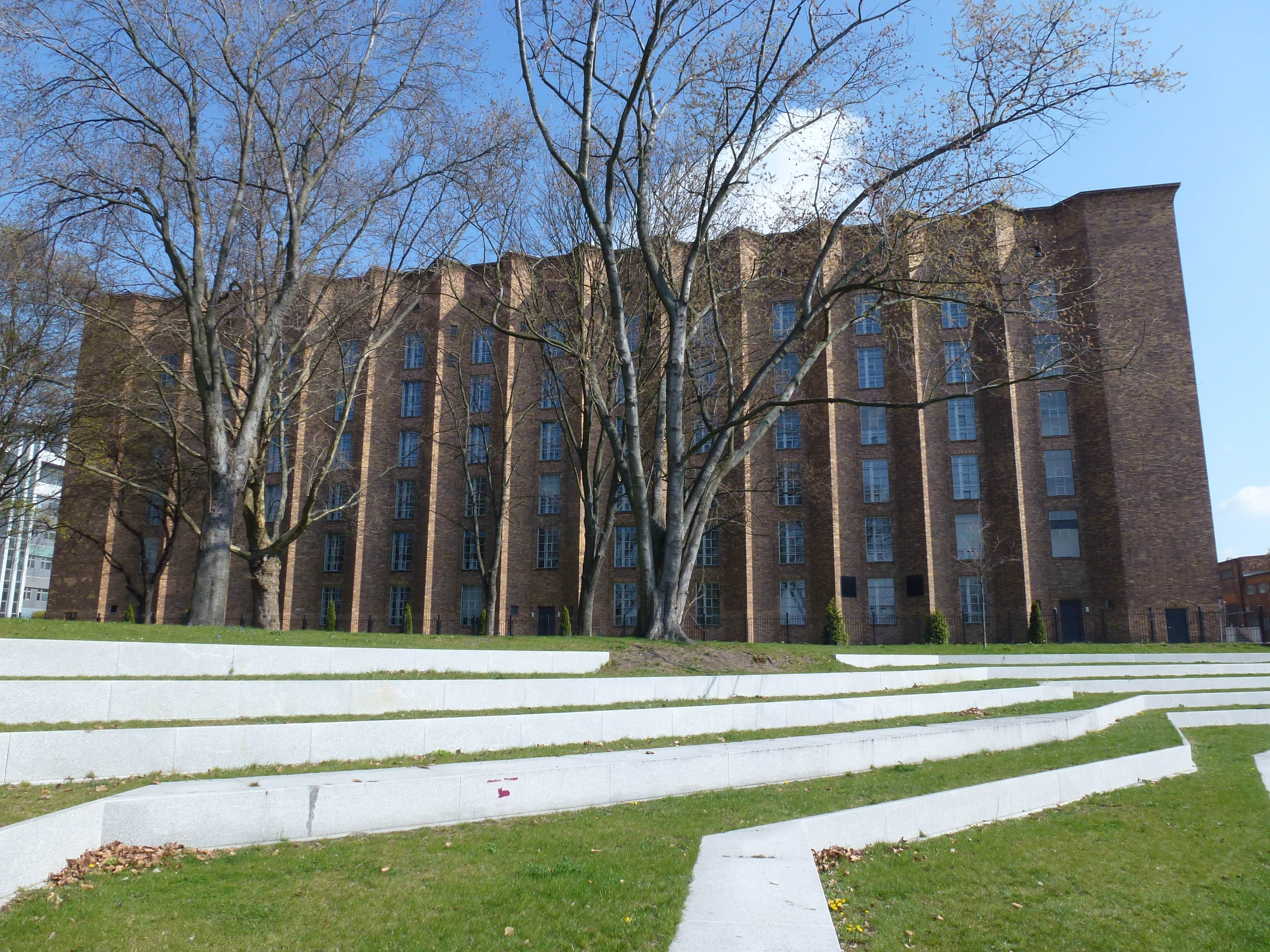 Wedding Sellerstraße Abspannwerk Scharnhorst